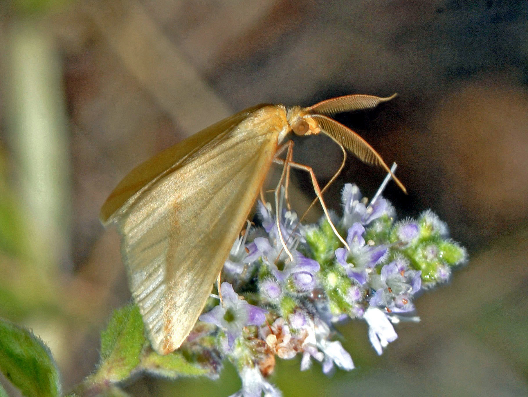 Rhodometra sacraria. Male, showing bipectinate antennae. Arquata, Alessandria, Italy